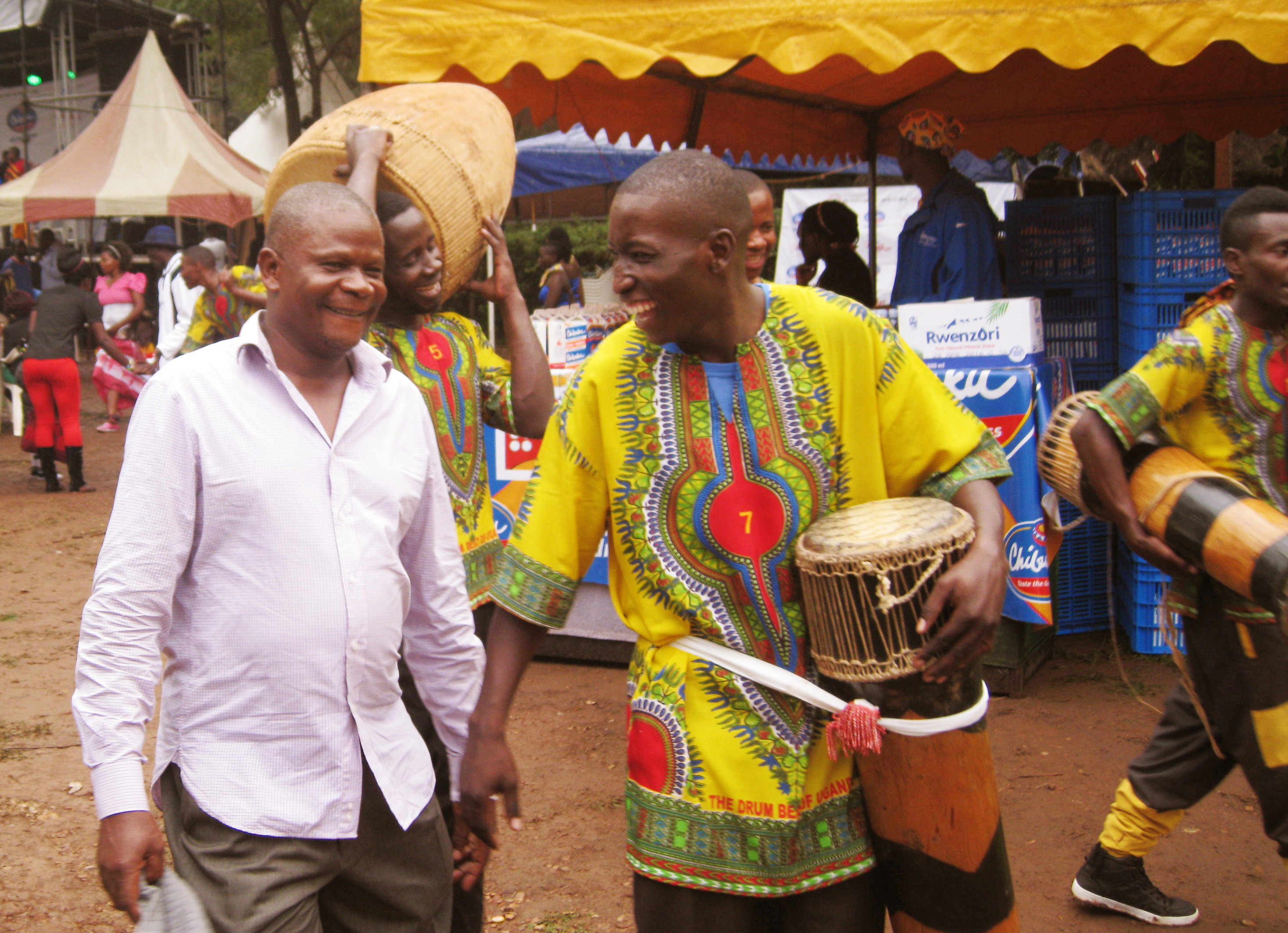 This is an image of Cultural Fashion or Adornment from Uganda